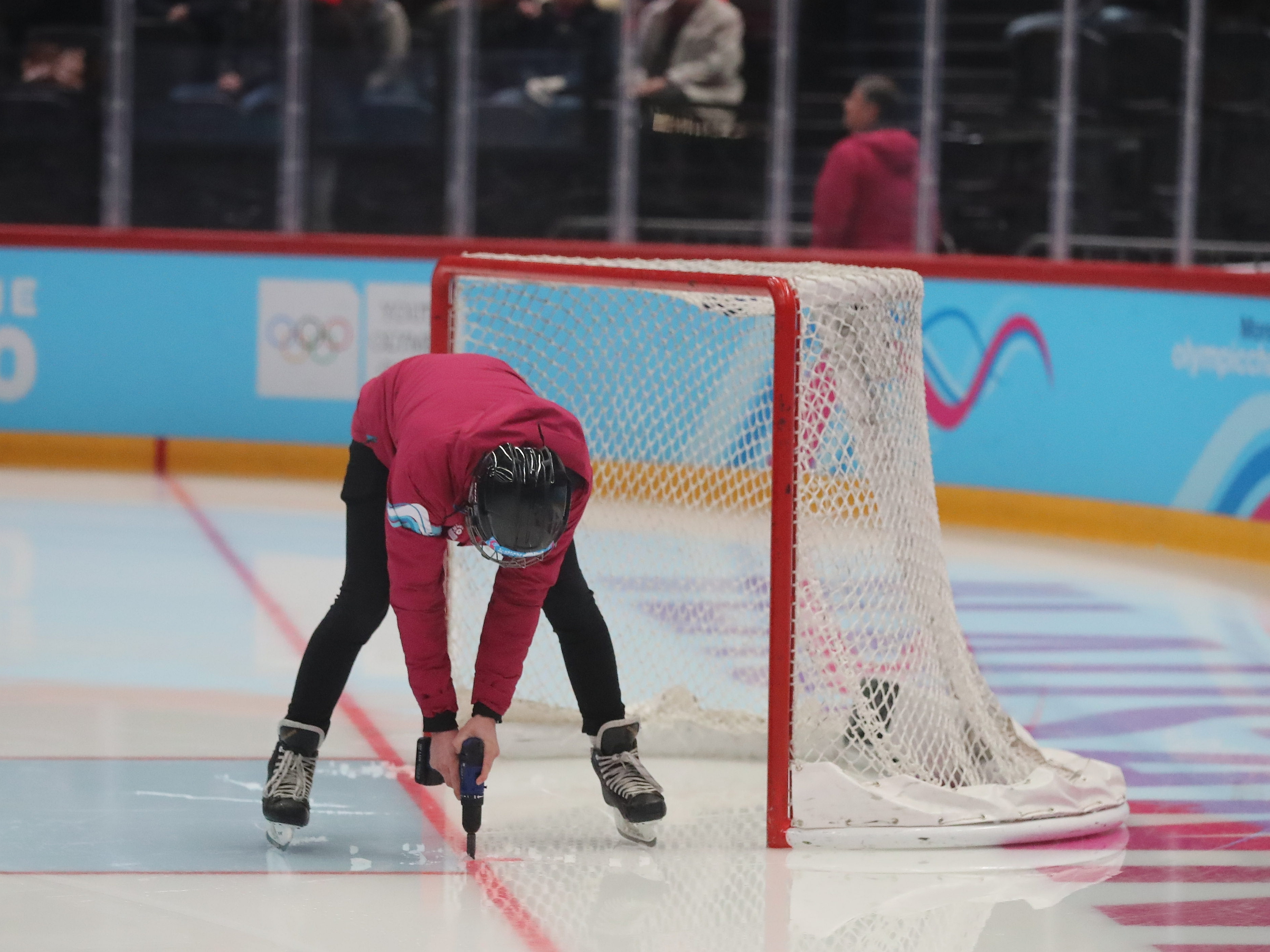 Ice hockey Women's Tournament preliminary match at the 2020 Winter Youth Olympics in Lausanne on 17 January 2020: Czech Republic vs. Switzerland.